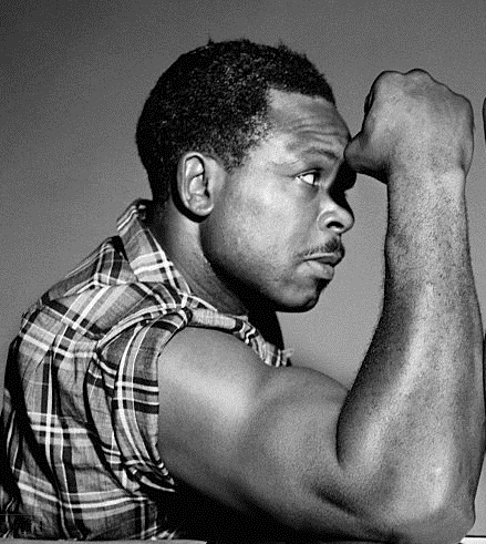 LD5 1954 Lightweight Match Archie Moore Harold Johnson Size Up Orig Press Photo